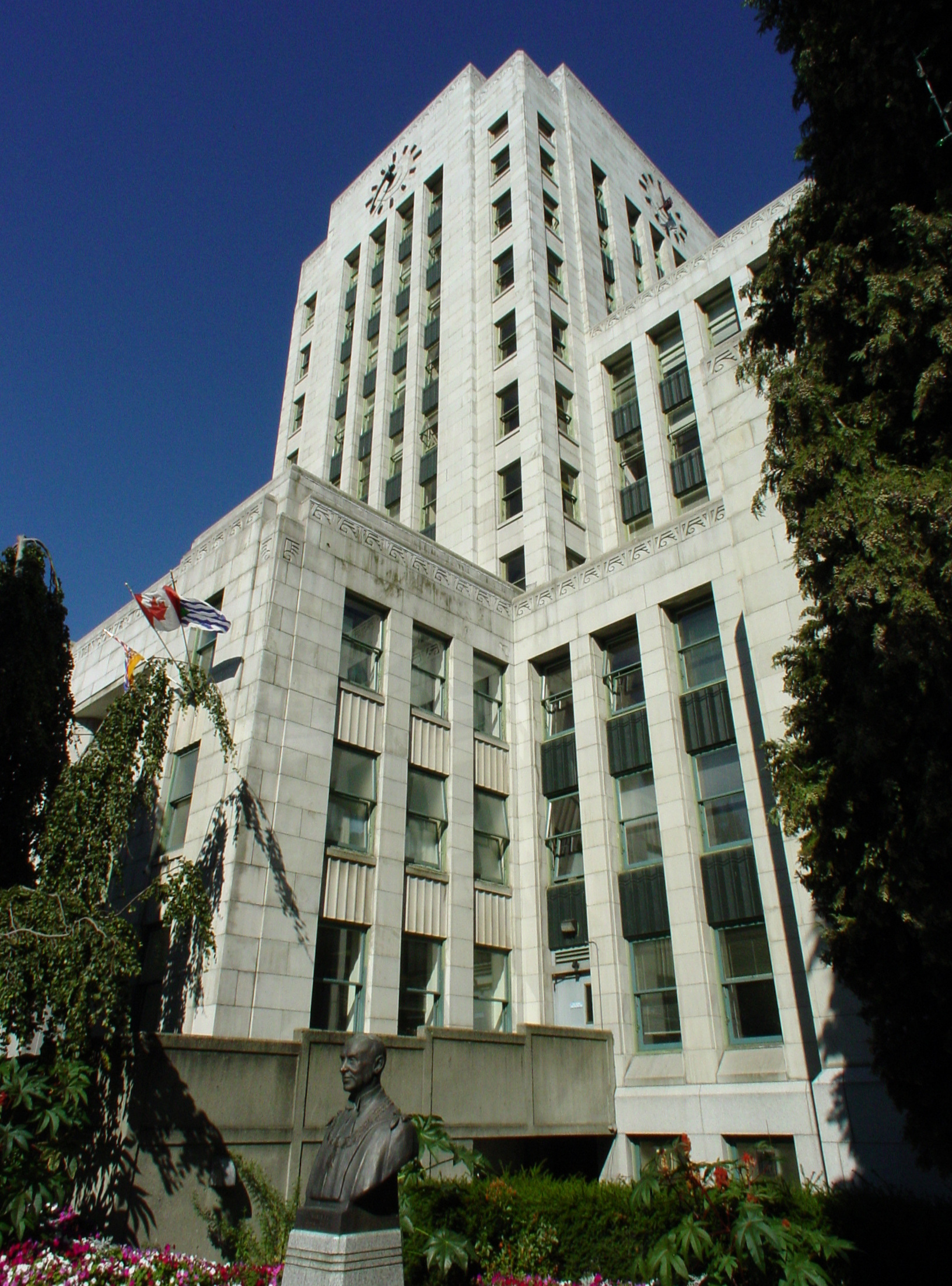 Vancouver City Hall